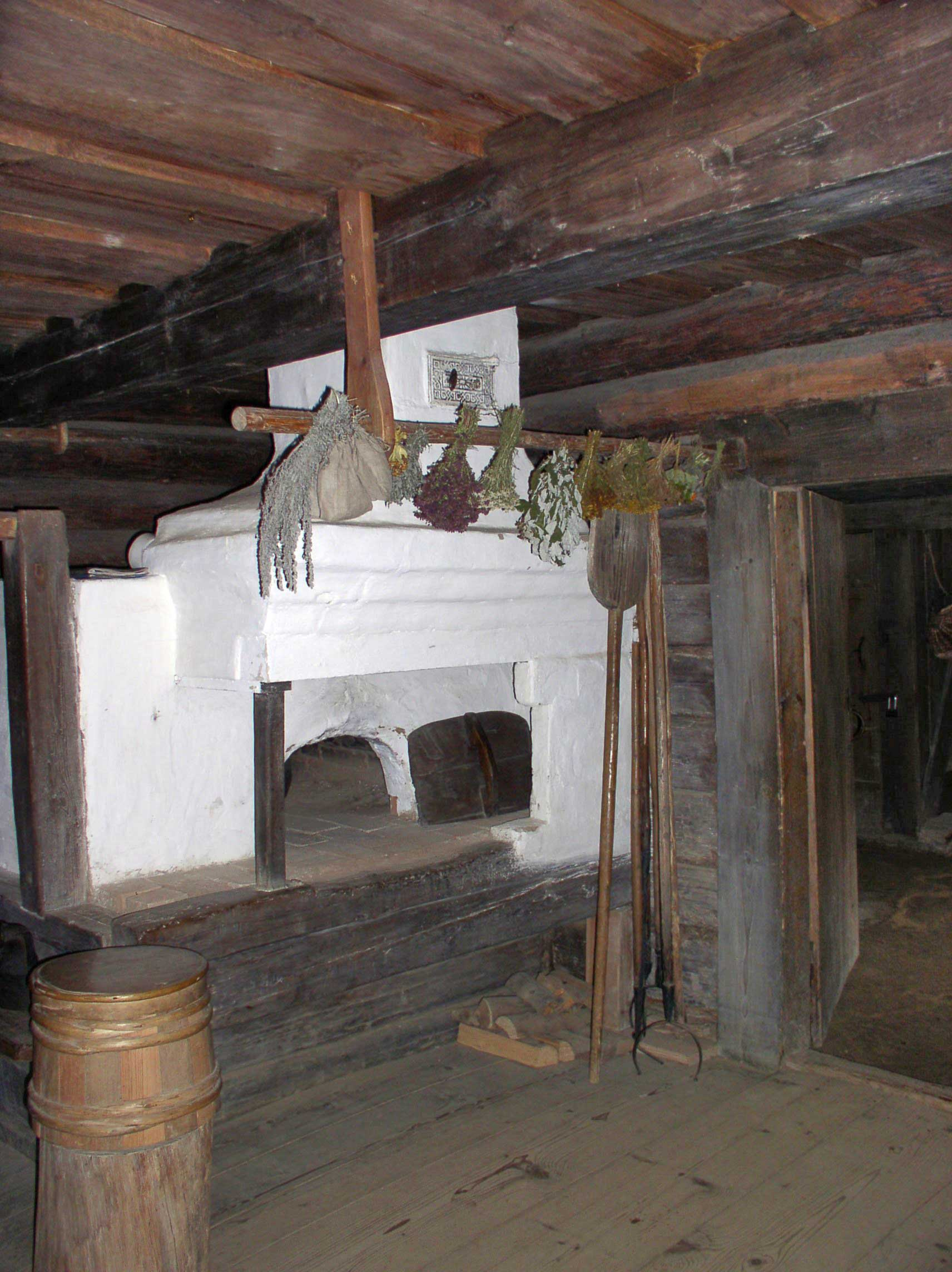 Stove. State museum of folk architecture and life, Belarus.